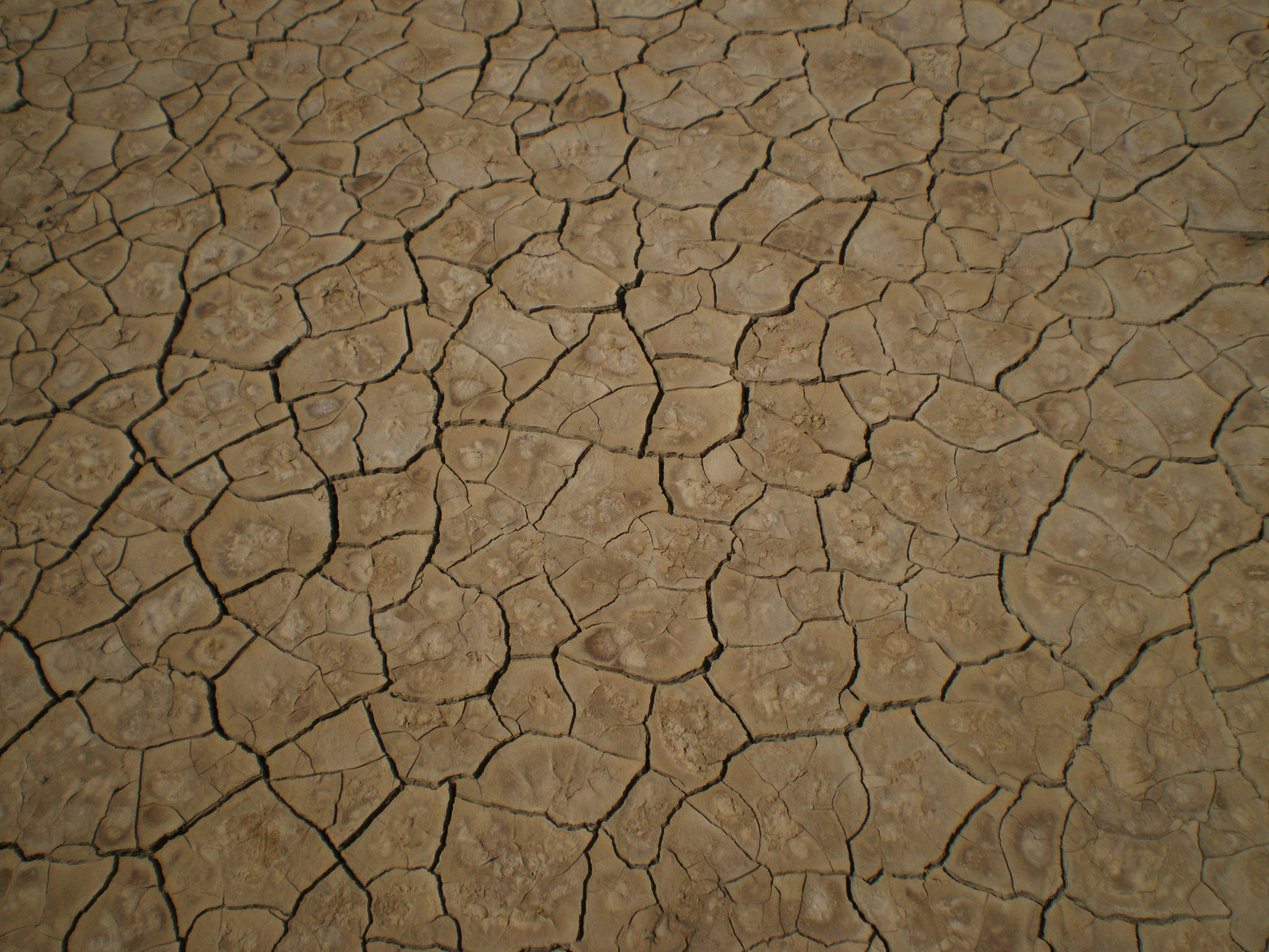 Drought